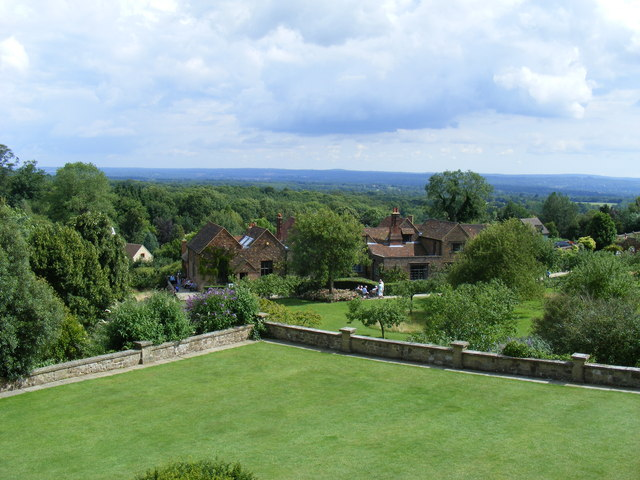 The Garden Studio at Chartwell Picture taken looking south-east from the balcony at the house. This is the view for which Churchill bought the house.